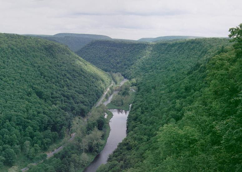 Crop of Pine Creek Gorge Panorama, taken from West Rim Trail in Tioga County, Pennsylvania, USA. View is of the "Grand Canyon of Pennsylvania" looking south, Pine Creek and the rail-trail are visible.